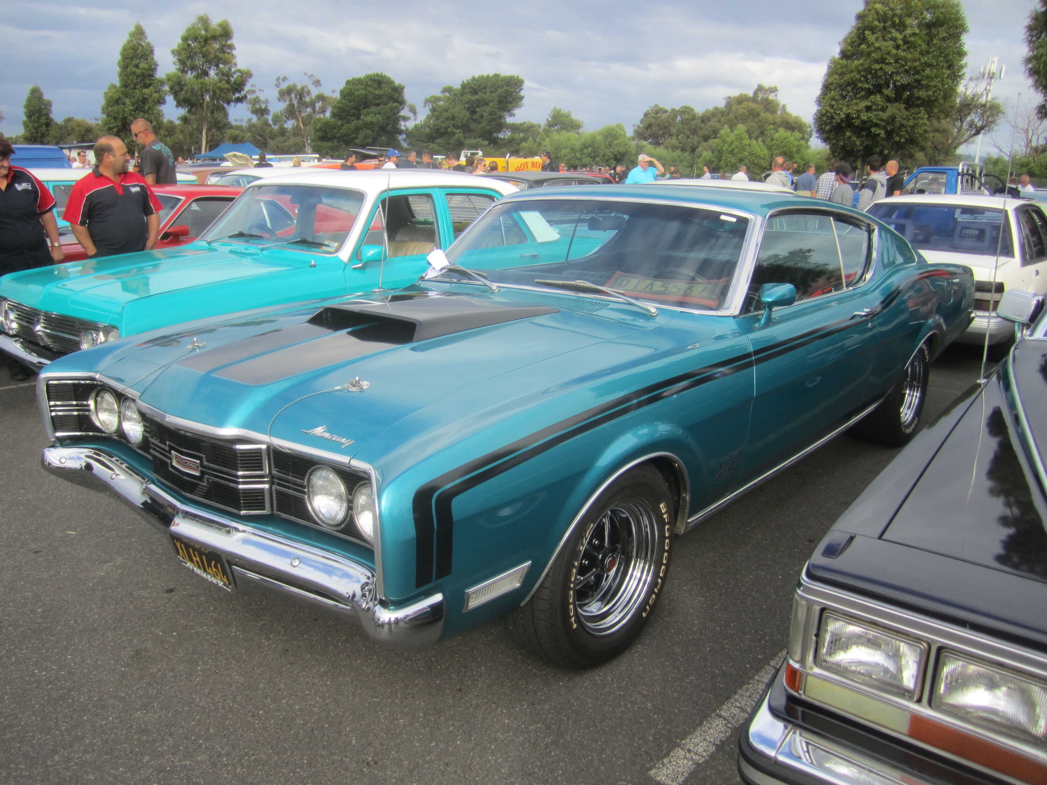 Originally, in 1964, the Cyclone was an option on the Comet. In 1968, the Comet name was dropped and the Cyclone was Mercurys performance car. (only available in 2 door) and shared its chassis with the Ford Fairlane and Torino. In 1969 the Cobra Jet was introduced, 335hp 428 CJ V8 with or without Ram Air, blacked-out grille, dual exhausts, engine dress-up kit, hood stripes; and a competition handling package. Also available was the limited edition Cyclone Spoiler II, 500 were made for NASCAR, the street version got the 351 Wndsor and the race versions had the Boss 429.